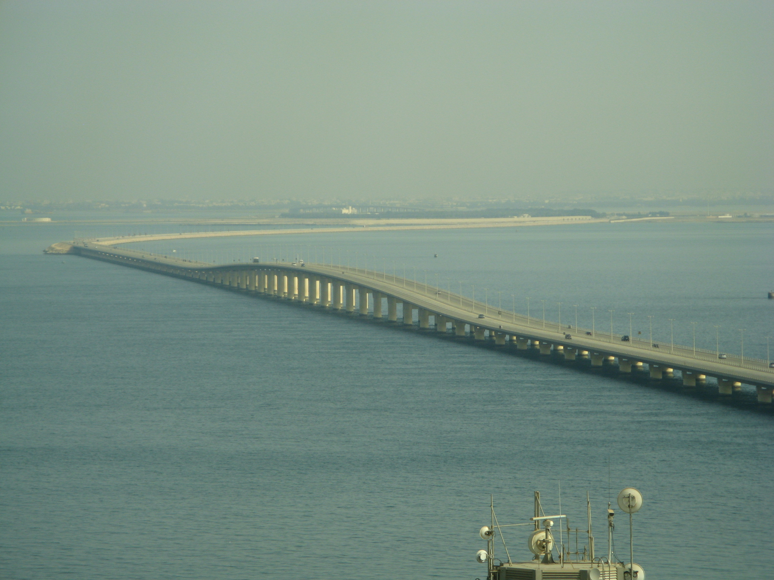 King Fahd Causeway - bridge number 4